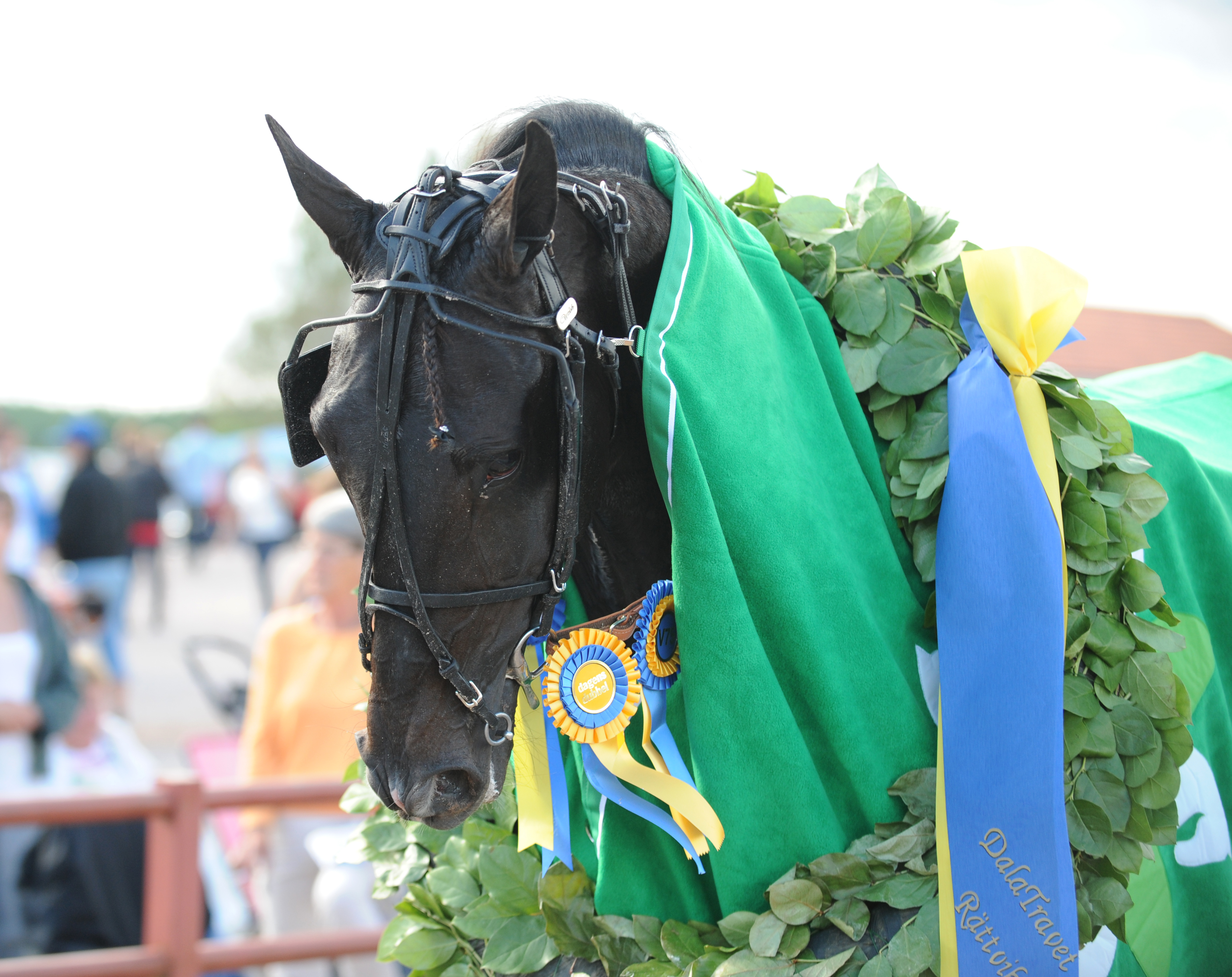 Highlight Brizard (trained by Per Lennartsson) after his victory in "Sommartravets final", 2012-08-04 in Rättvik, Sweden.